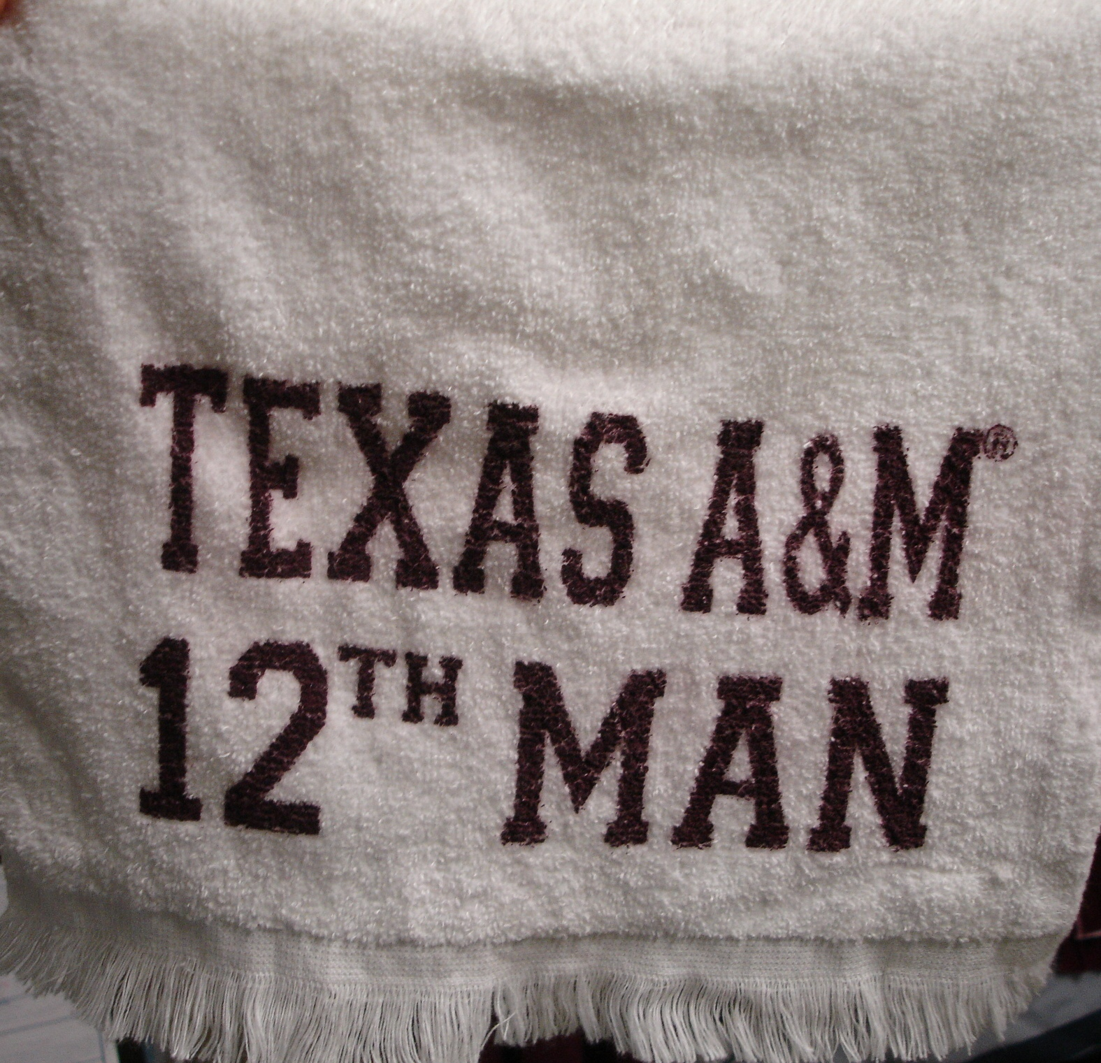 12th Man towel used by fans at Texas A&M University football games.